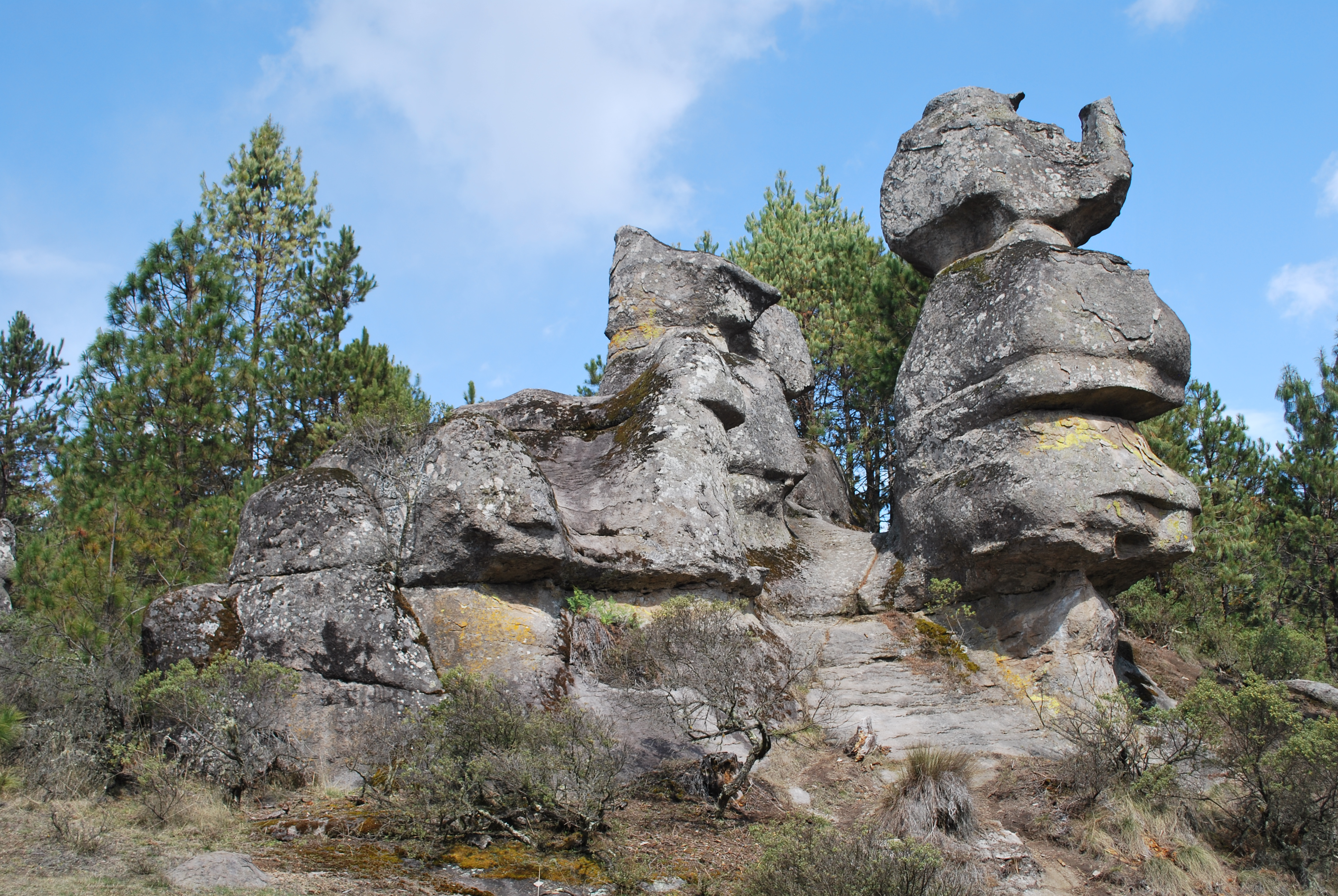 Rock formation at the Valle de las Piedras Encimadas in Zacatlán, Puebla, Mexico